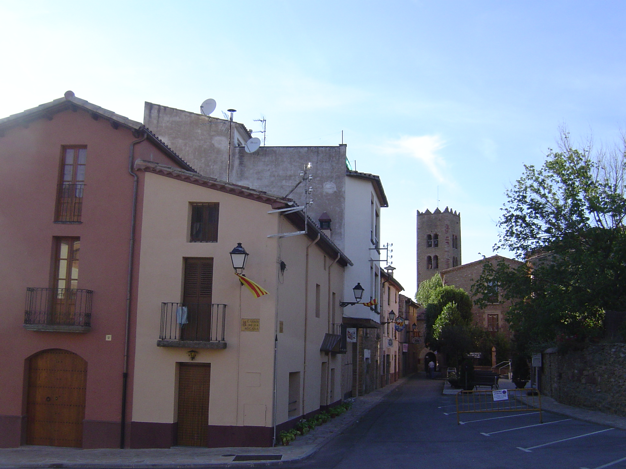 Image of the entry on the ancient nucleus of Seva, in the background the church of Santa Maria of Seva.